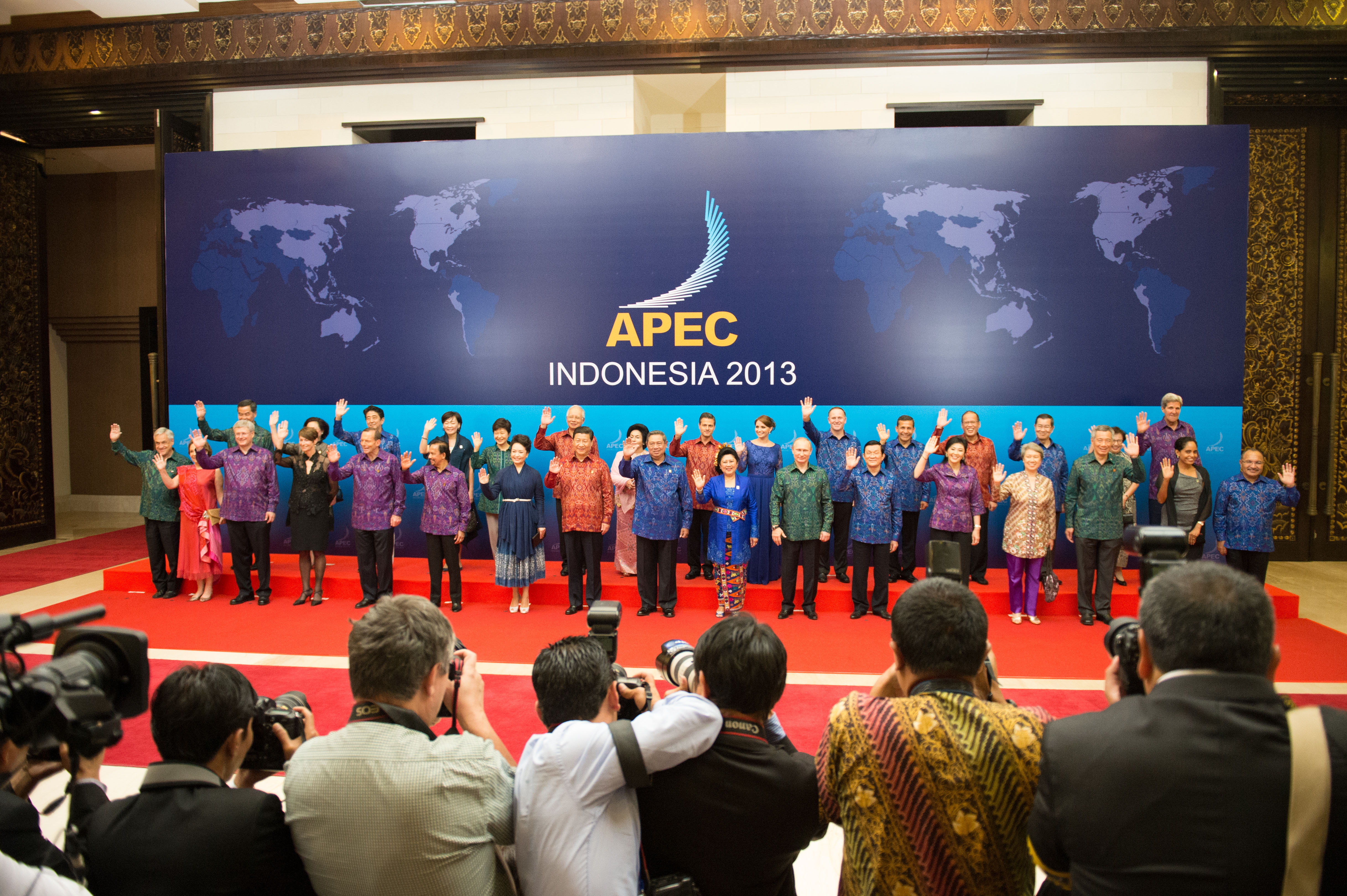 U.S. Secretary of State John Kerry poses for a photo before the Asia-Pacific Economic Cooperation (APEC) Leaders' Official Dinner in Bali, Indonesia, on October 7, 2013. [State Department photo by William Ng/ Public Domain]